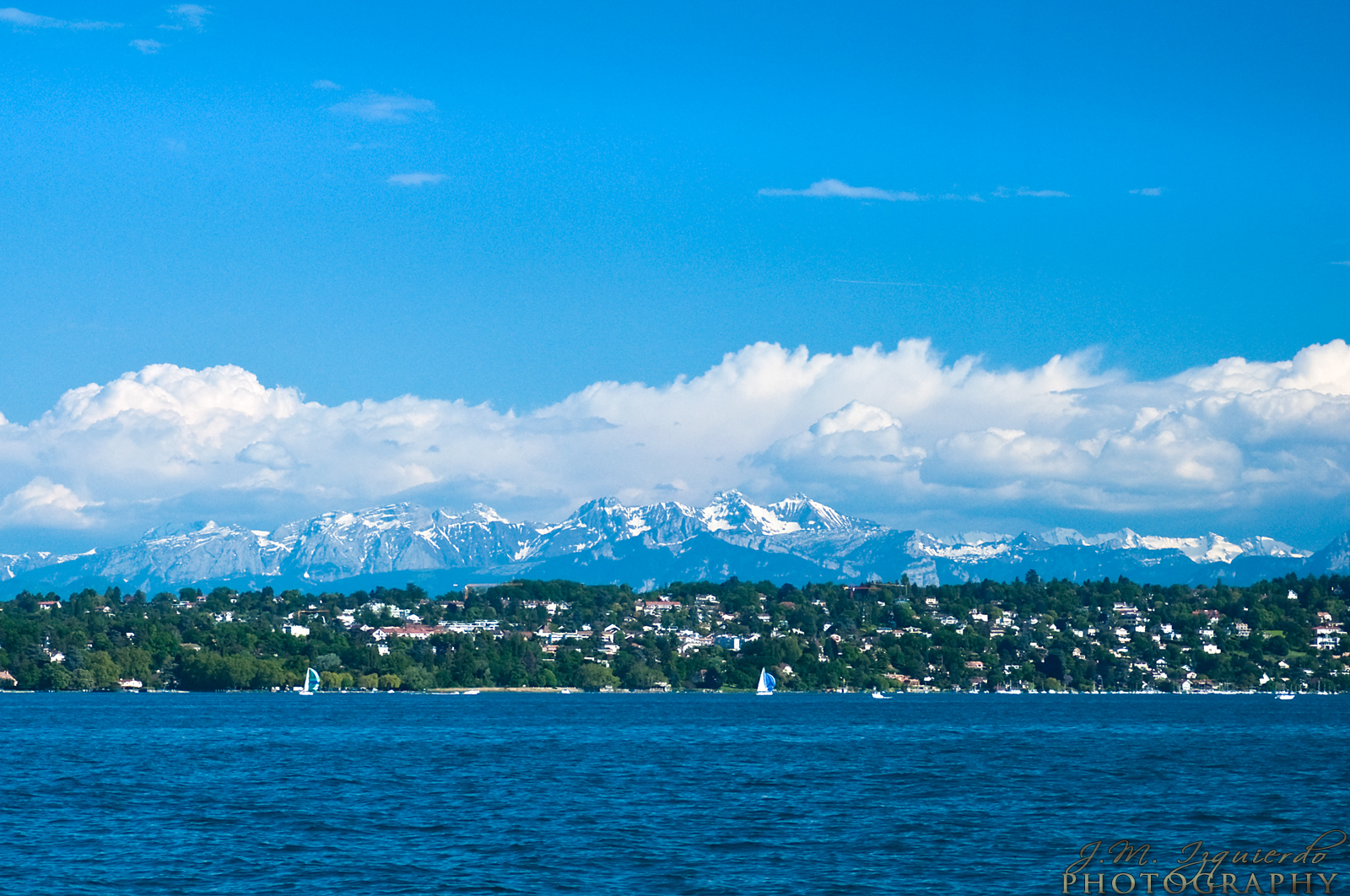 Approaching Genthod and Versoix on Lake Geneva